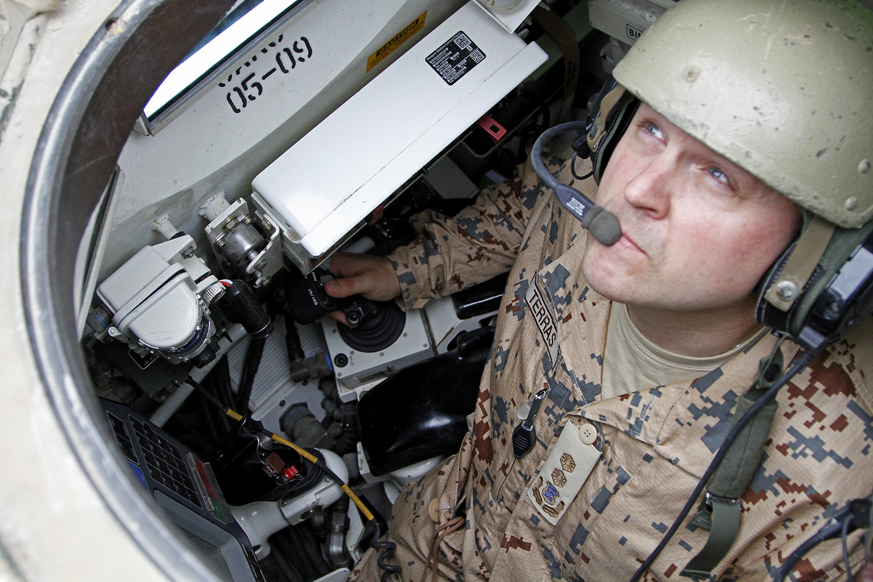 Maj. Gen. Riho Terras, Estonia's chief of defence, sits in the gunner’s hatch of an M1A2 Abrams tank during his visit to Fort Hood, June 9. Part of Terras’ visit took him to Sugarloaf Multi-Use Range where Soldiers of 2nd Battalion “Thunderhorse,” 12th Cavalry Regiment, 1st Armored Brigade Combat Team “Ironhorse,” 1st Cavalry Division took him for a ride in the tank and let him fire the main gun. Terras talked with leaders throughout the division about the First Team’s regionally aligned forces in Europe. Elements of 1st BCT, 1st Cav. Div., are currently taking part in a multi-national training exercise, Combined Resolve II in Europe. More than 4,000 participants from 14 NATO and European partner nations are participating in the exercise. (U.S. Army photo by Spc. Paige Behringer, 1BCT PAO, 1st Cav. Div. (released).